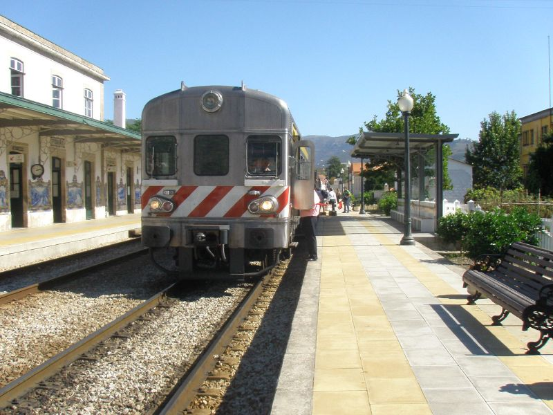 Train (type 600/650) at Pinhão train station, Portugal